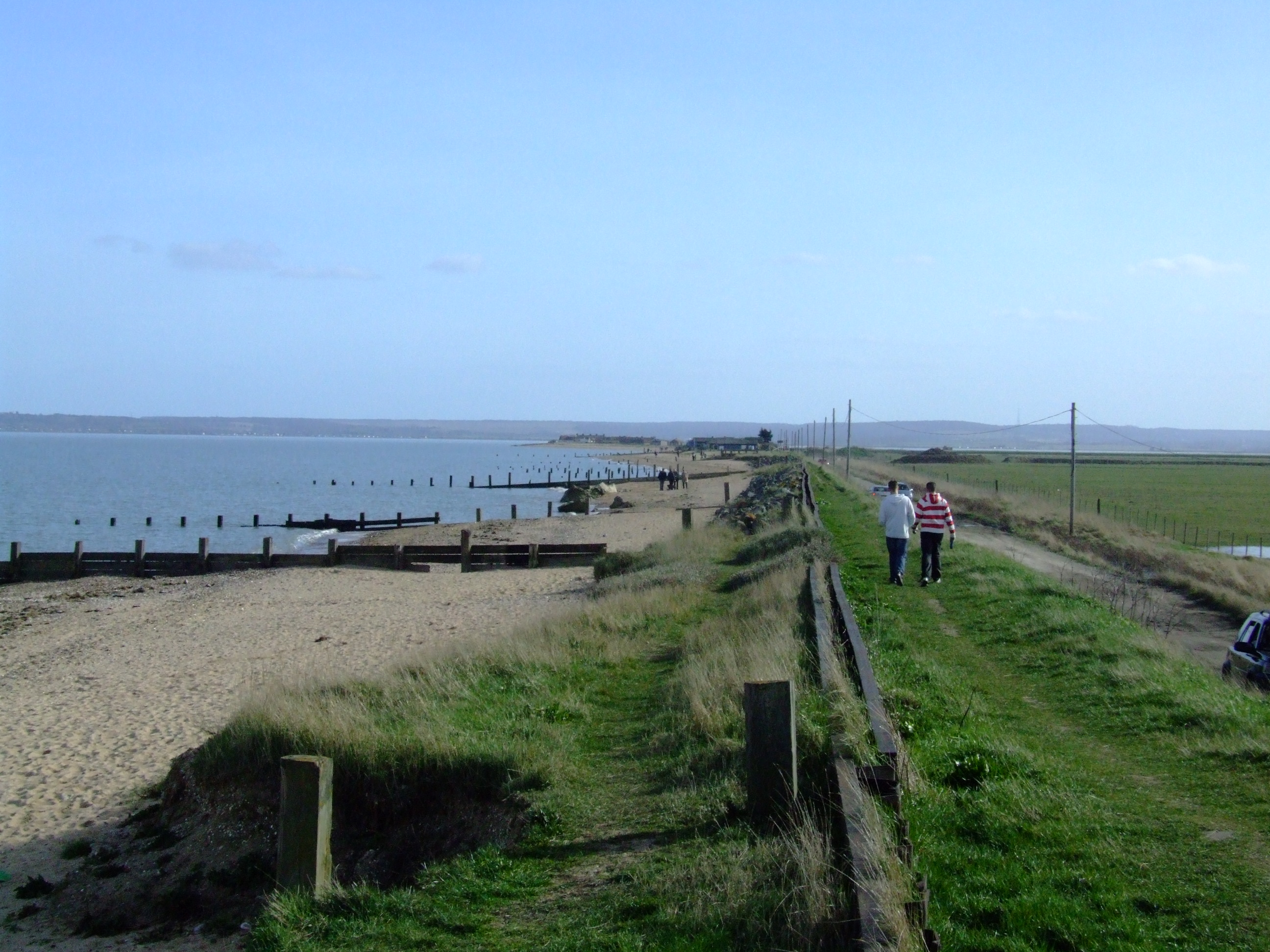 Leysdown, Isle of Sheppey Kent. Sea wall, beach and groynes. Looking across the Swale to Whitstable.